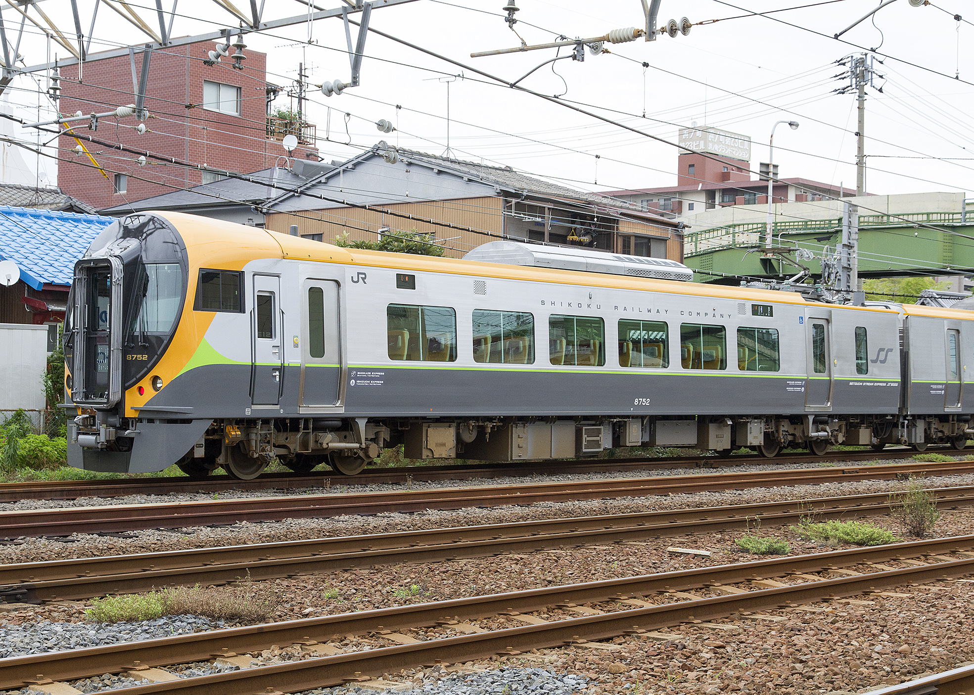 JR Shikoku 8600 series EMU car 8752 of set E12 near Takamatsu Station